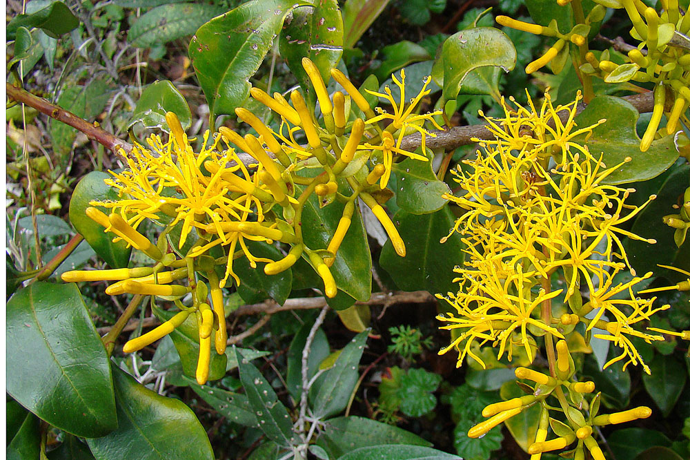 A hemiparasite which favors wet mountains from Nicaragua to Bolivia. Photo from Volcan Baru, western Panama. In context at